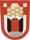 Coat of arms of Dub (Prachatice District).